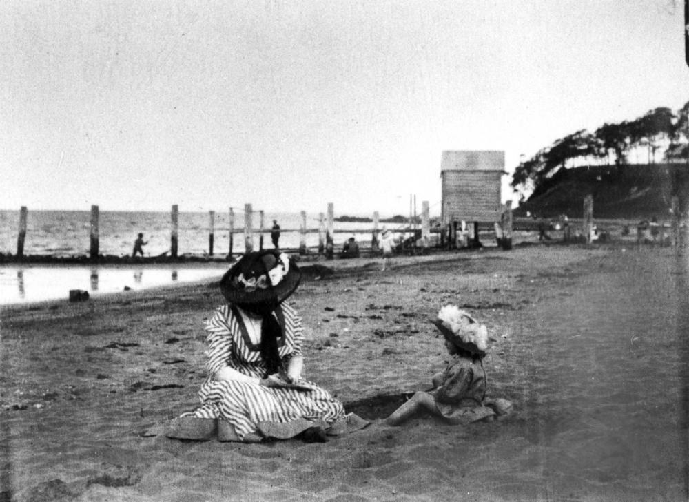 Woman and child sitting on the beach at Sandgate, Brisbane, ca. 1907 Woman and young child sitting on the beach at Sandgate. The woman appears to be reading to the child, and both are wearing hats. A boatshed and jetty are visible in the background. People are fishing from the jetty.